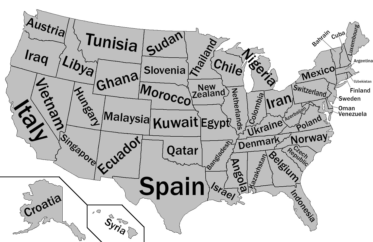 This image compares the states of the US to other countries by approximately GDP in 2012, based on data from World Bank and Bureau of Economic Analysis websites.